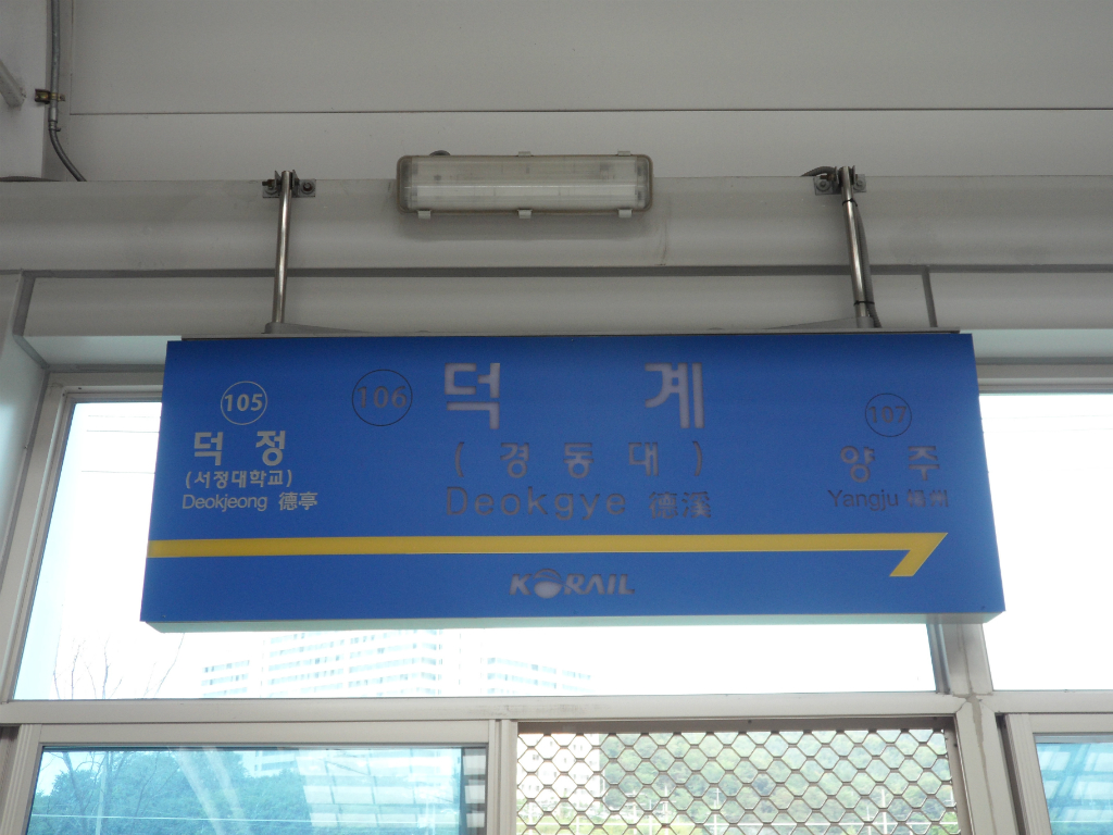 Deokgye station's nameplate